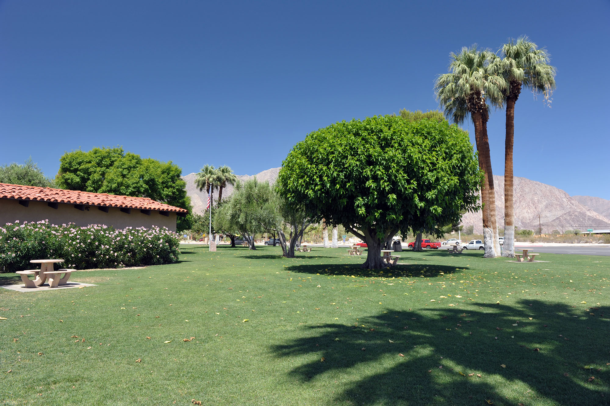 The downtown Borrego Springs grassy area called Christmas Circle. This area hosts several festivals every year.